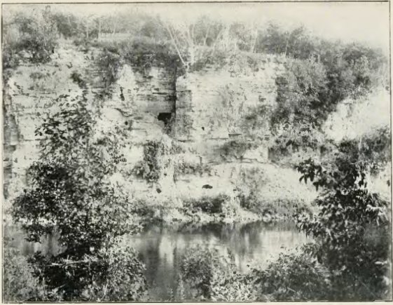 Illustration in History of Iowa From the Earliest Times to the Beginning of the Twentieth Century